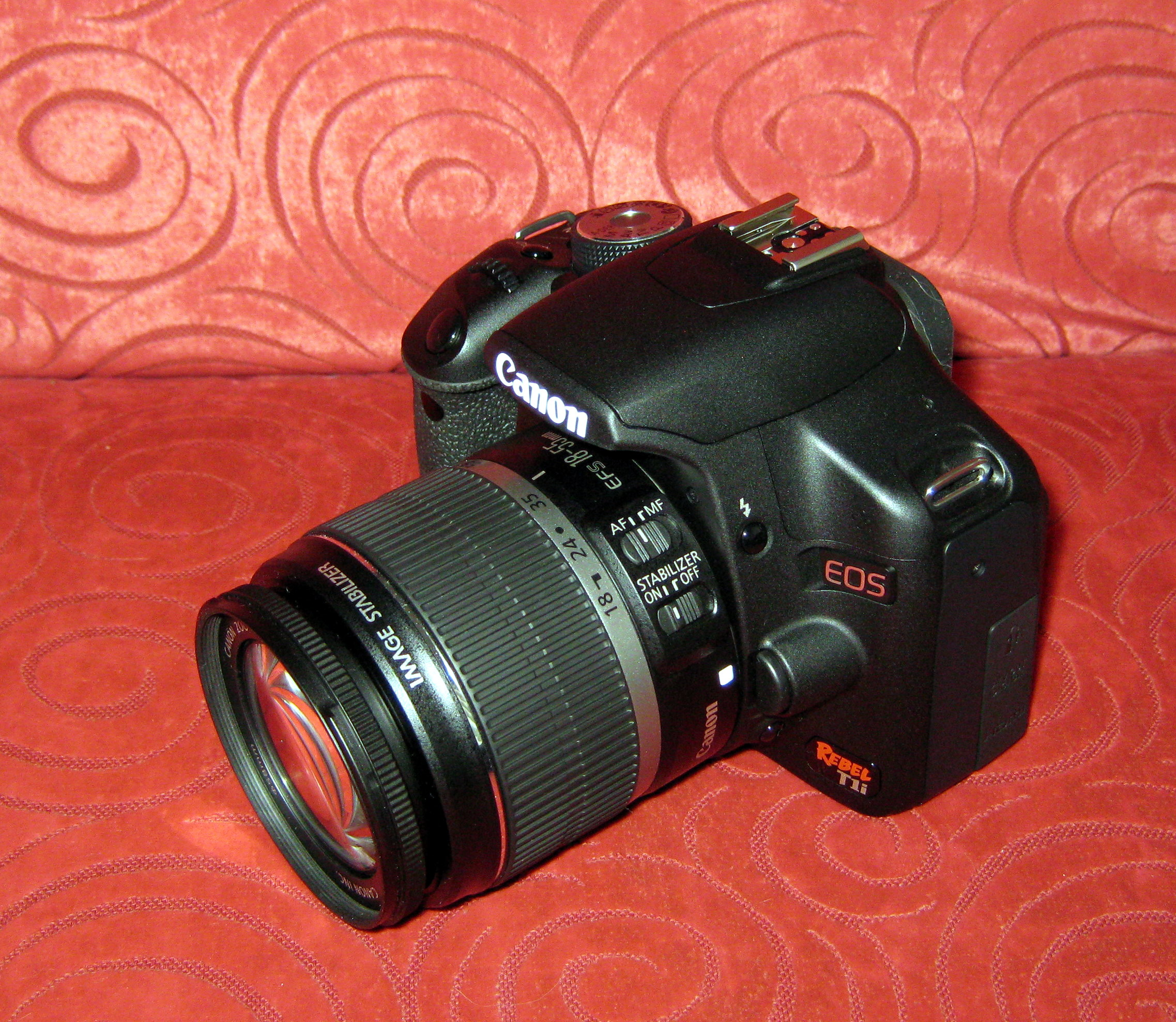 Canon EOS Rebel T1i digital SLR camera, sold as Canon EOS 500D in Europe and Canon EOS Kiss X3 in Japan.